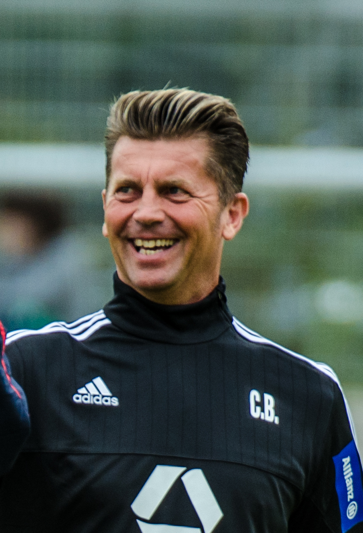 Match of the German Women's Football Bundesliga between 1.FFC Frankfurt and 1. FFC Turbine Potsdam, 2015-09-13